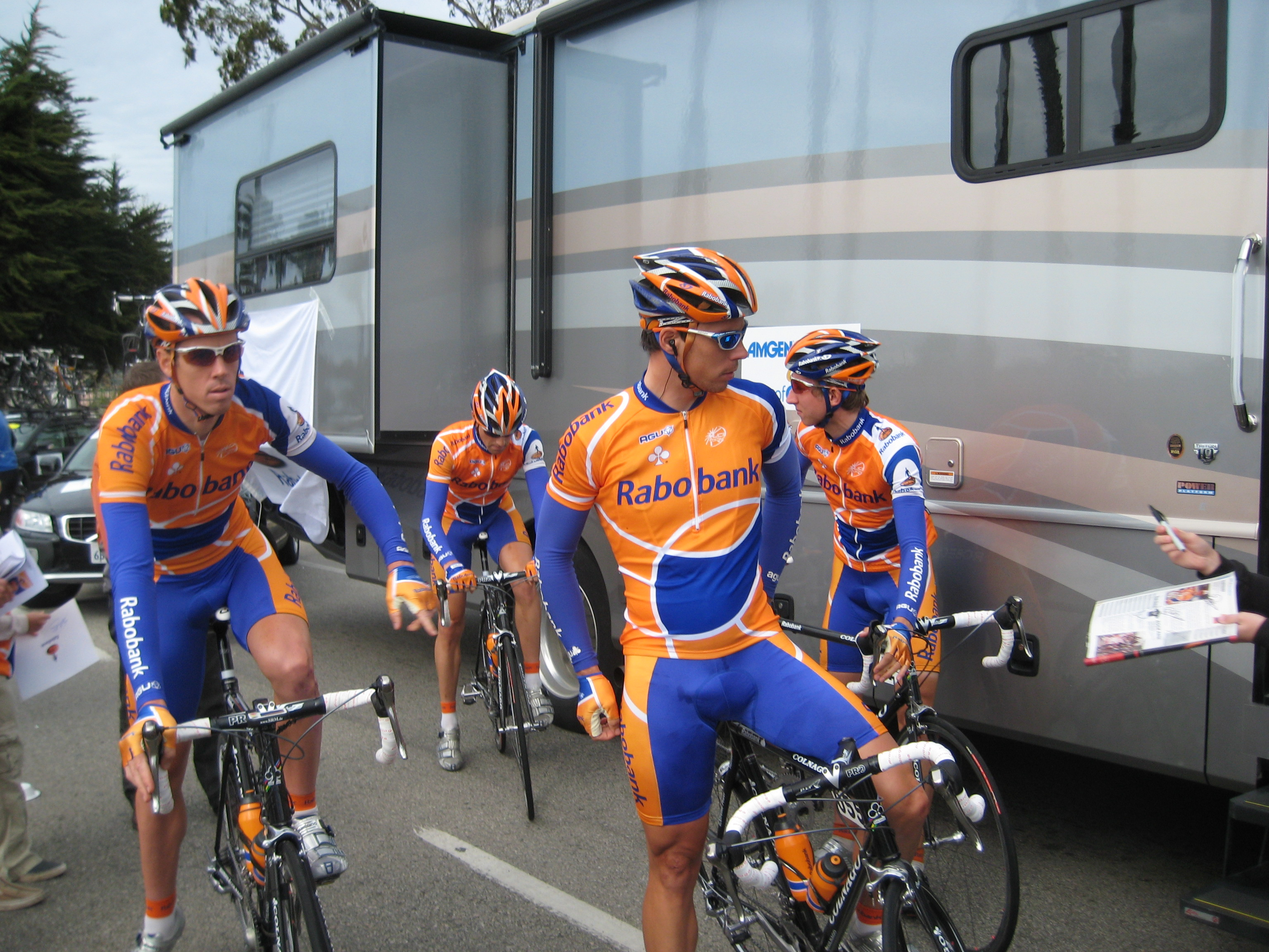 Team Rabobank - Mathew Hayman, Paul Martens, Pedro Horillo, and Bauke Mollema are getting ready to race from Santa Barbara to Valencia in the 2008 Amgen Tour of California